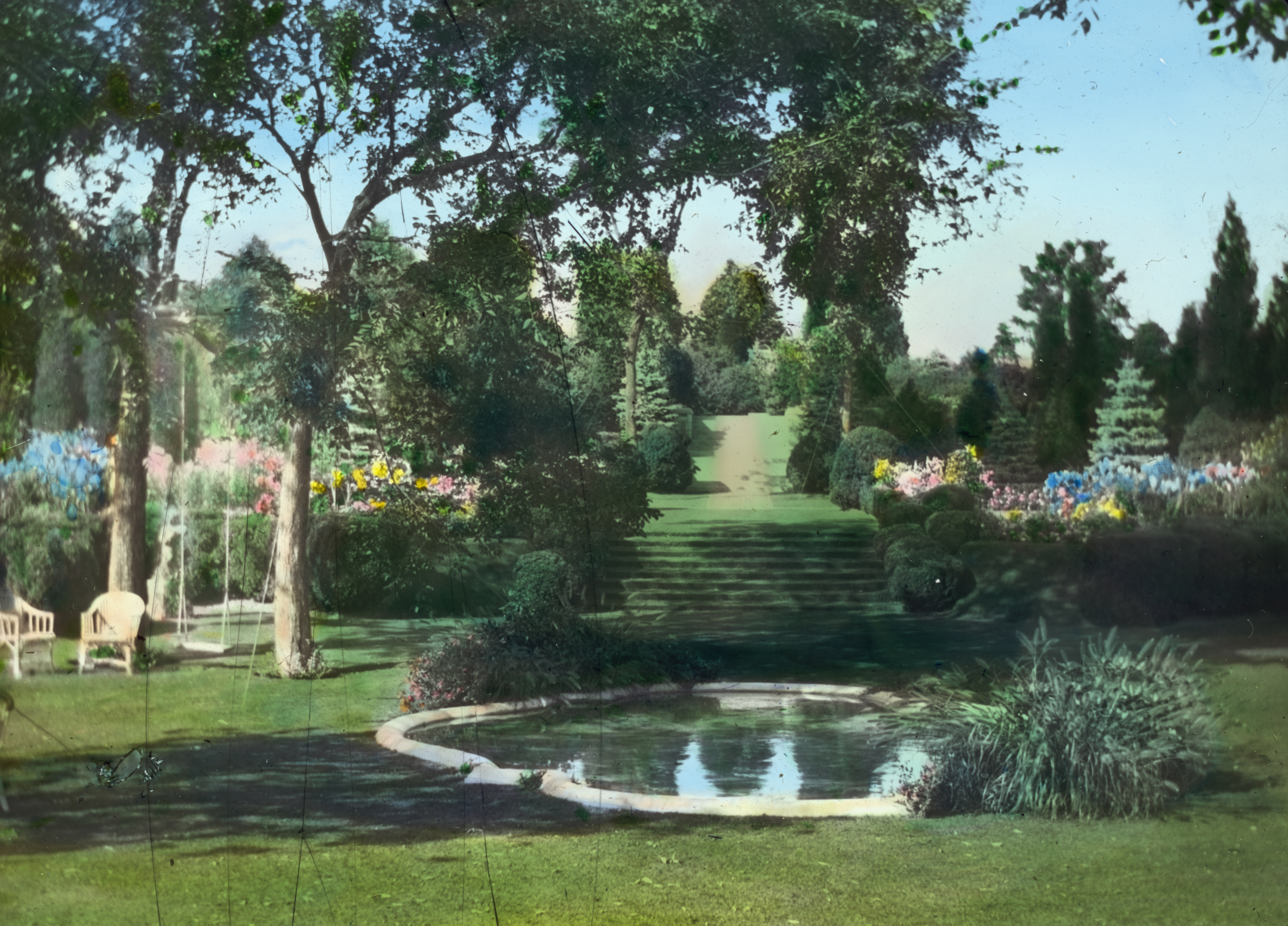 Hand-tinted, 1918 glass slide (now cracked) of the sunken terrace at "Killenworth", the estate of George Dupont Pratt house in Glen Cove, New York, United States. It was designed by James Leal Greenleaf, one of the most noted landscape architects of the day, and is considered Greenleaf's finest work. Originally published as part of Johnston's "House and Garden Lecture" series in 1920.